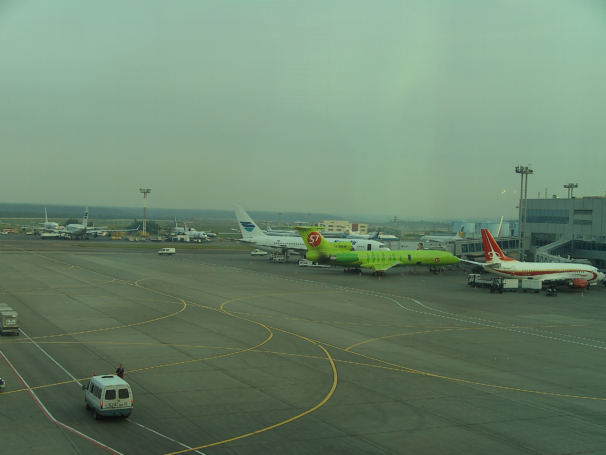 Domodedovo International Airport.